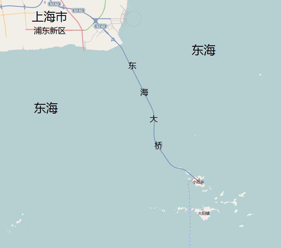 An inaccurate map of Donghai Bridge and the area surrounding it.